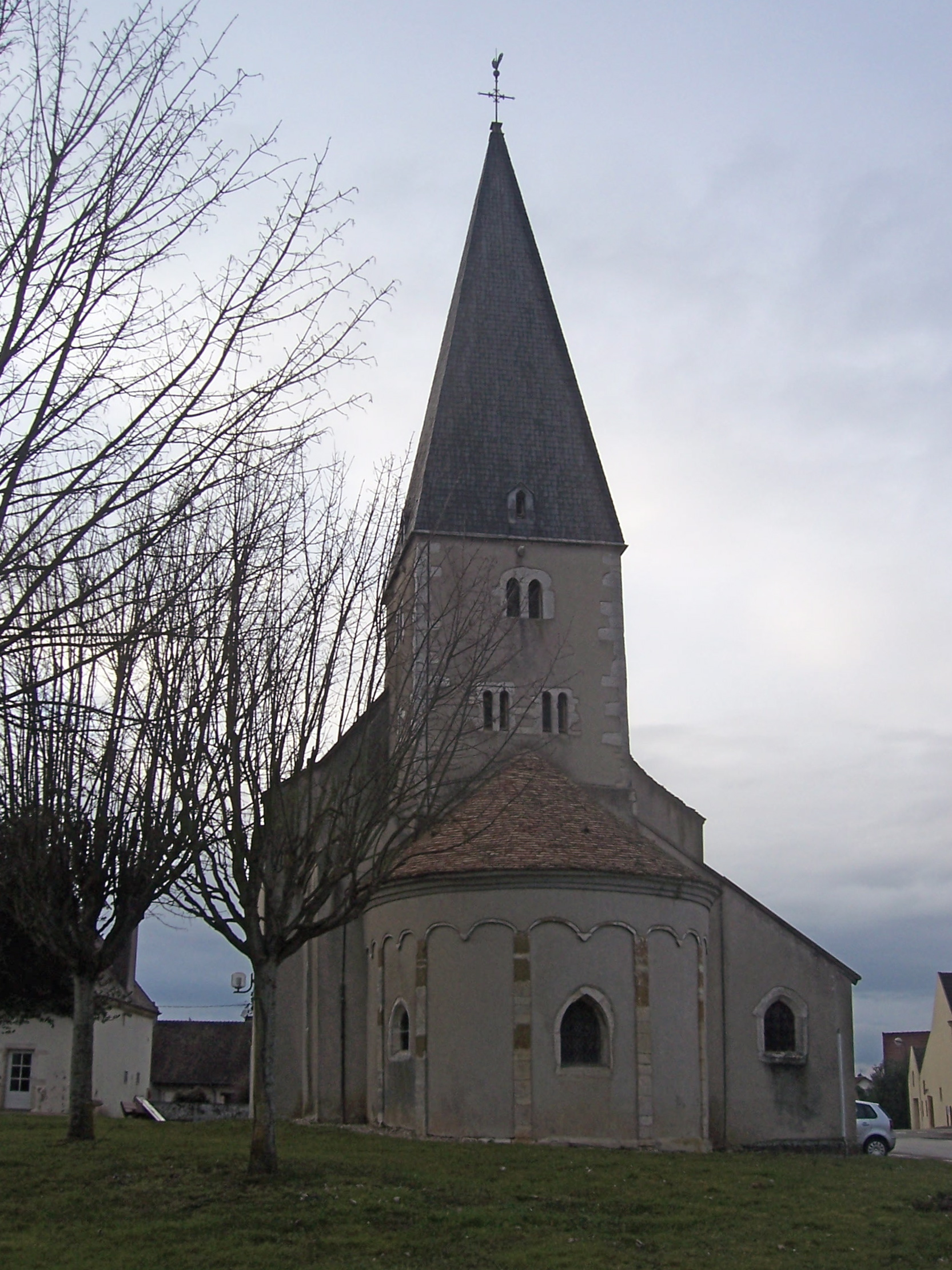 Bey church